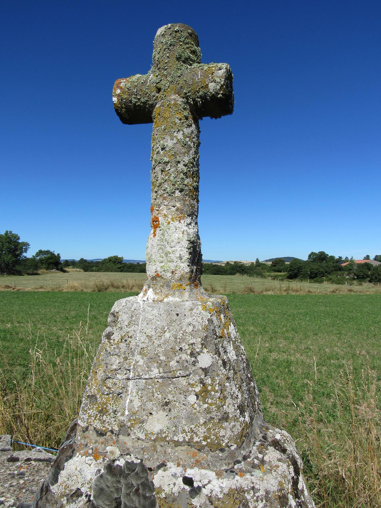 old stone christian cross with cisors engraving